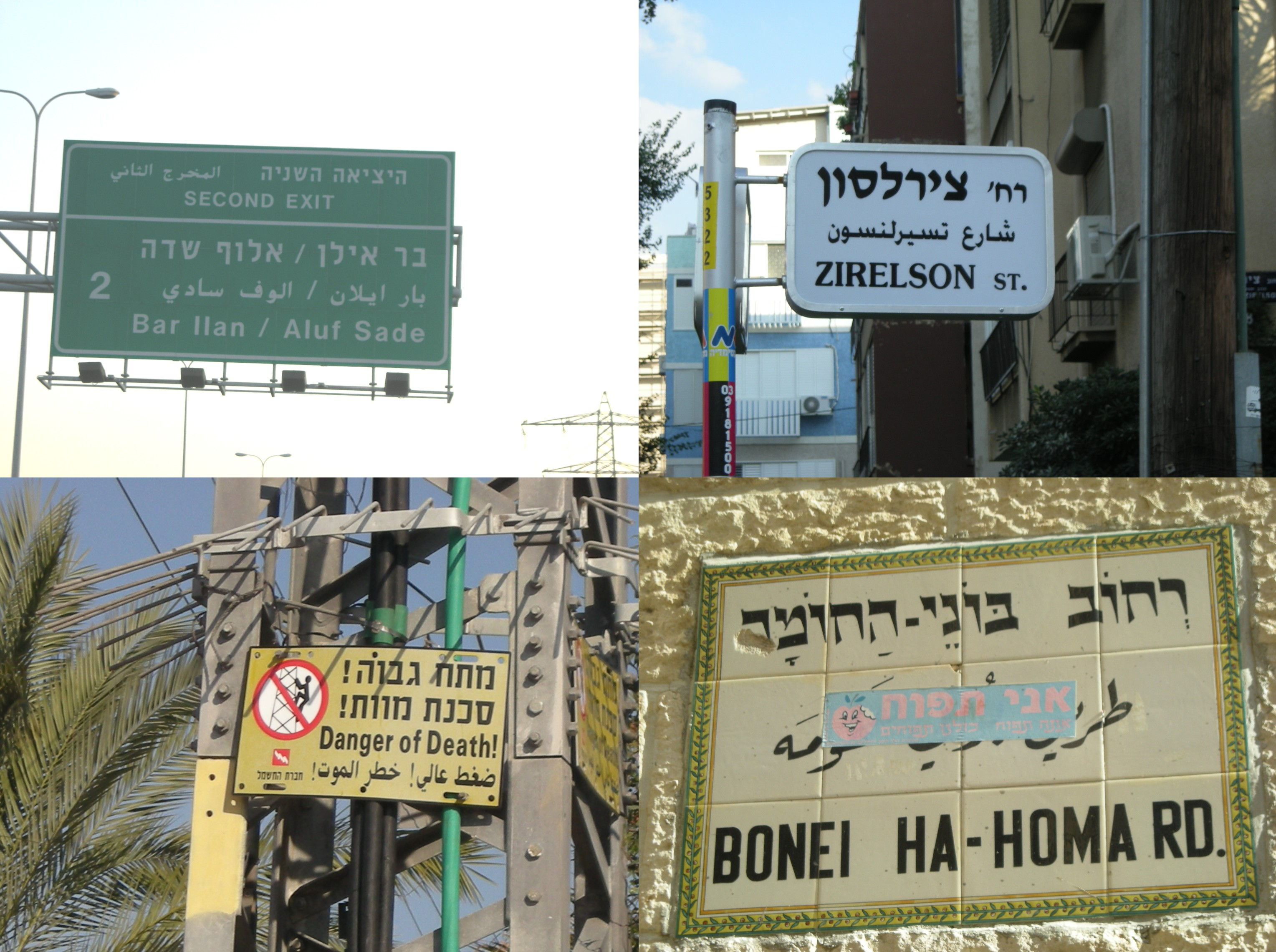 Signs in Israel